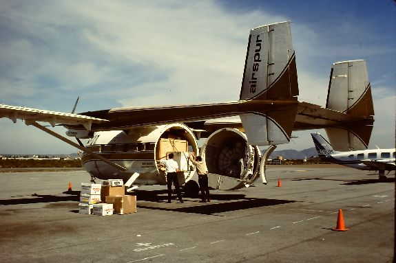 Catalog #: Quastler214 Manufacturer: Israeli Aircraft Industries Designation: Arava Airline: Airspur Serial Number: N525MW Details: "Date of photo: 03/04/1982 ; Note reads, ""SD/Montgmery / Unloading N525MW on [fist?] flight for Emery from LA.""" Photo by I. E. Quastler Repository: San Diego Air and Space Museum Archive